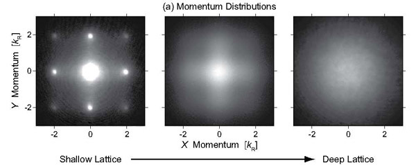 Time-of-flight images of a two-dimensional Bose gas. For shallow lattices, the pronounced diffraction peaks indicate that the gas is in a superfluid phase. Increasing the lattice depth leads to stronger interactions and eventually results in the formation of a Mott insulator.